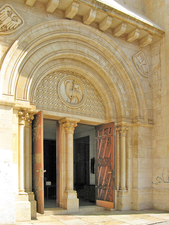 Lutheran Church of the Redeemer, Jerusalem (Old City)